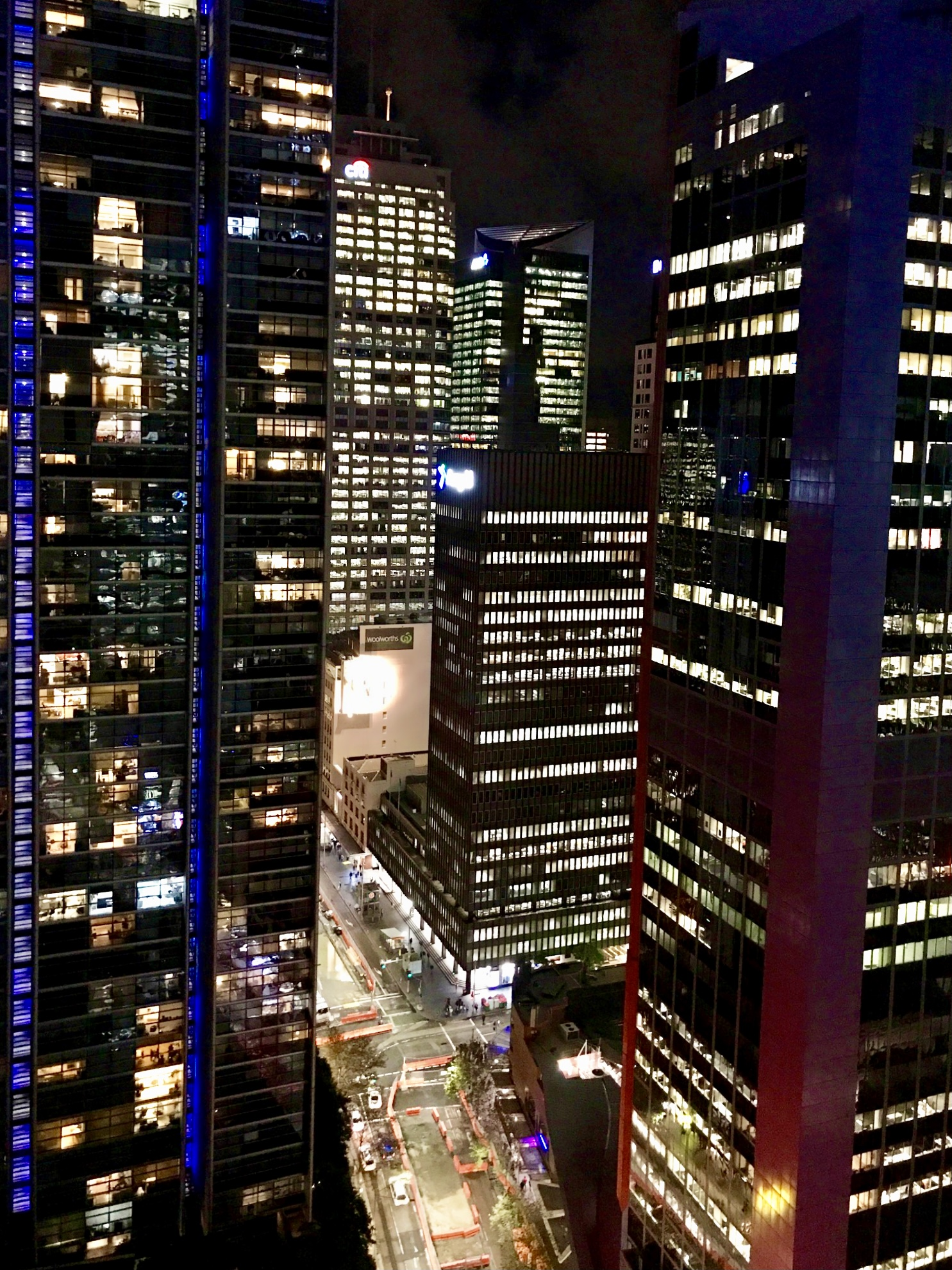 Sydney CBD at night, seen from Meriton Serviced Apartments Kent Street, Sydney